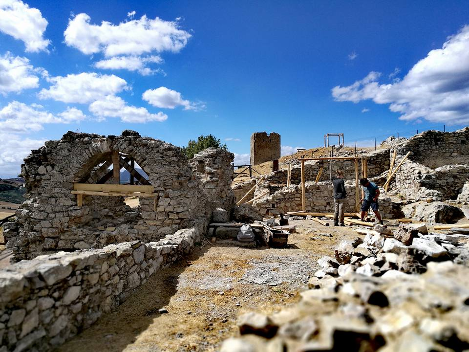 Tower of Satriano This is a photo of a monument which is part of cultural heritage of Italy.